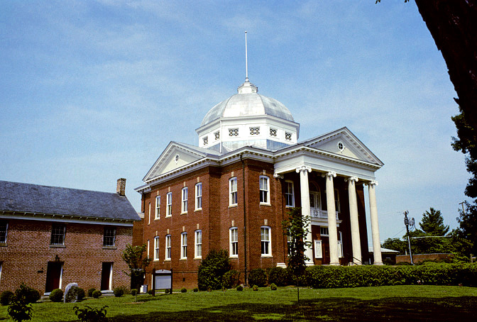 Louisa County Courthouse (Built 1905), Louisa (Louisa County, Virginia) This image or file is a work of a United States Department of Agriculture employee, taken or made as part of that person's official duties. As a work of the U.S. federal government, the image is in the public domain.